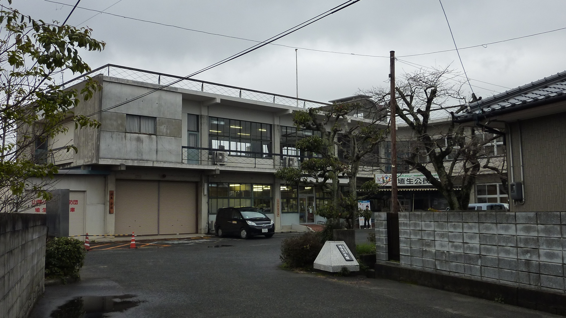 Sanyo-Onoda City Office Habu Branch (Yamaguchi Prefecture, Japan)